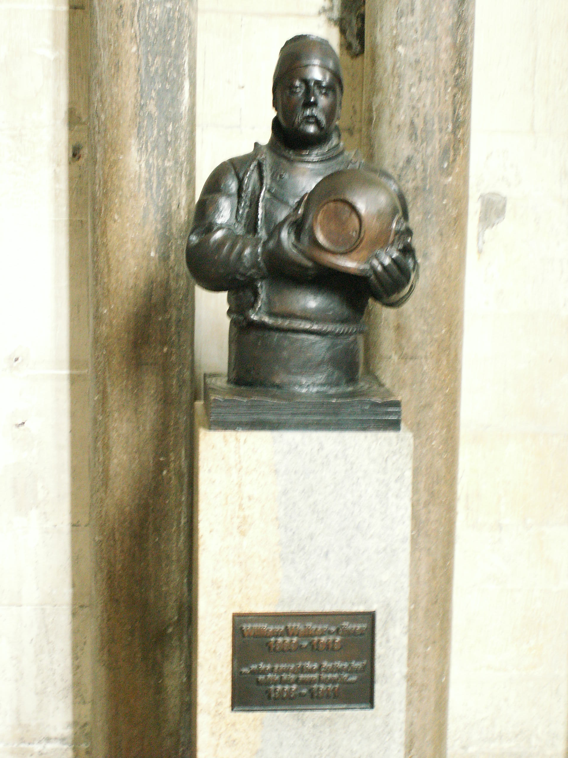 William Walker statuette at Winchester Cathedral, England.